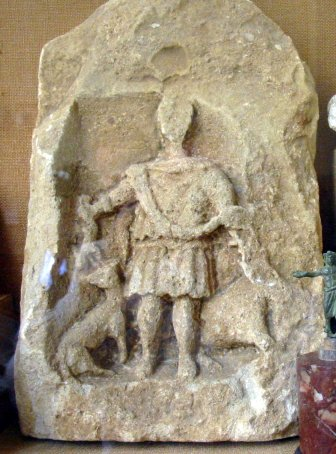 Stone relief in the museum at Chedworth Roman Villa, Gloucestershire, England.